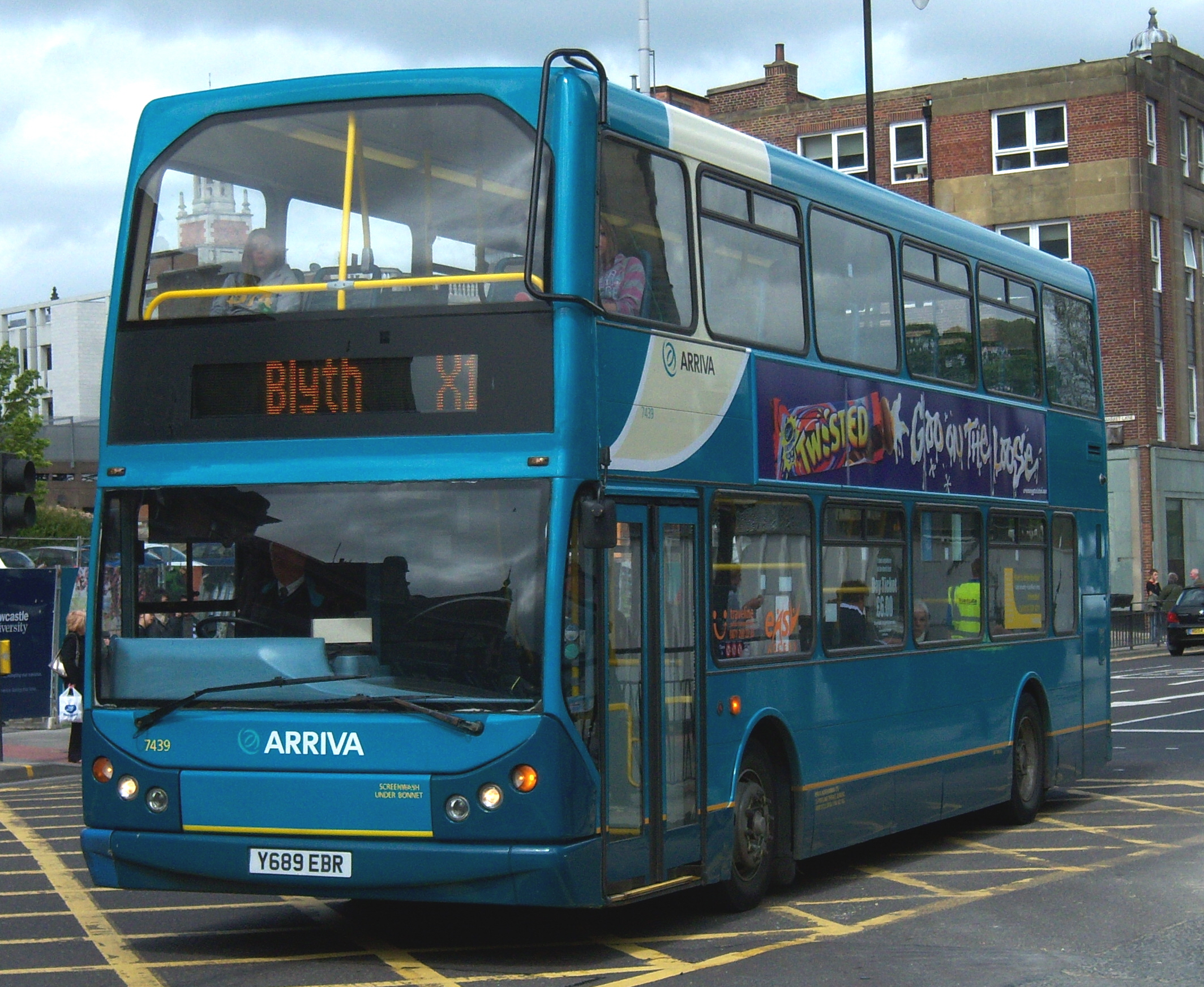 Arriva North East 7439 (Y689 EBR), a DAF DB250/East Lancs Myllennium Lowlander bus in Newcastle upon Tyne, on route X1. As is evident, it has been repainted into interurban livery, in Arriva North East's unique way of not getting their repaints to look very good, with random blue headlight surrounds and unfinished looking cows horns.